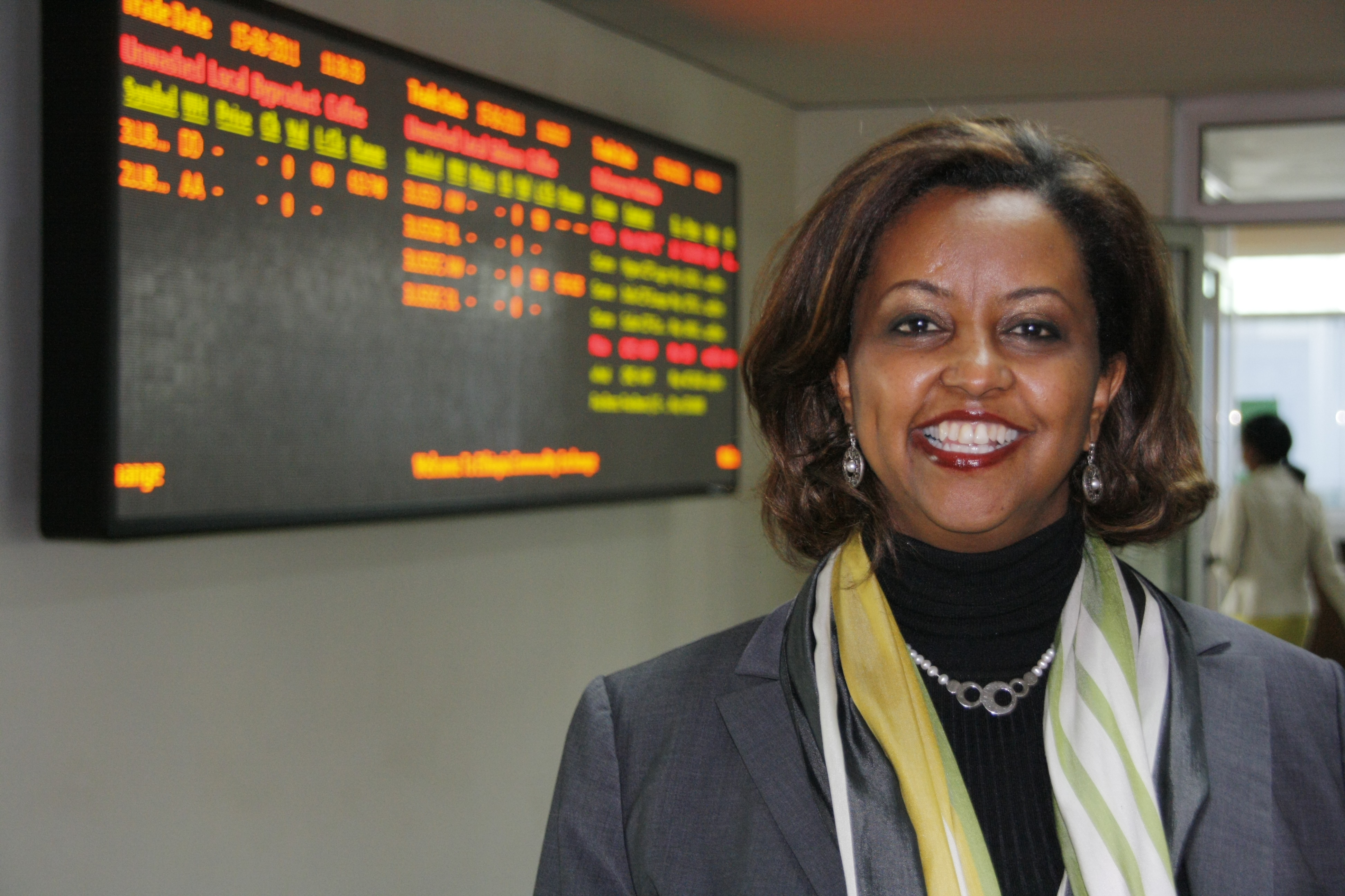 Dr Eleni Gabre-Madhin, CEO of the Ethiopia Commodity Exchange (ECX) , at the company's headquarters in Addis Ababa.